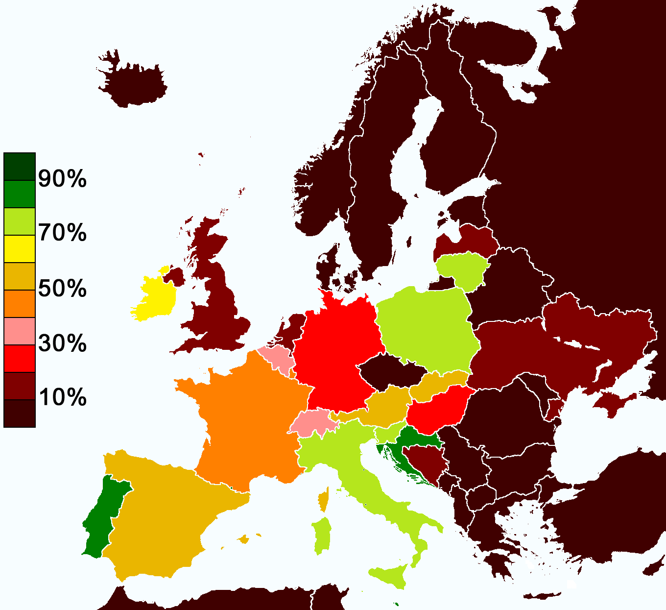 Map of Catholic population percentages in Europe